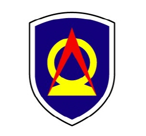 72nd division symbol